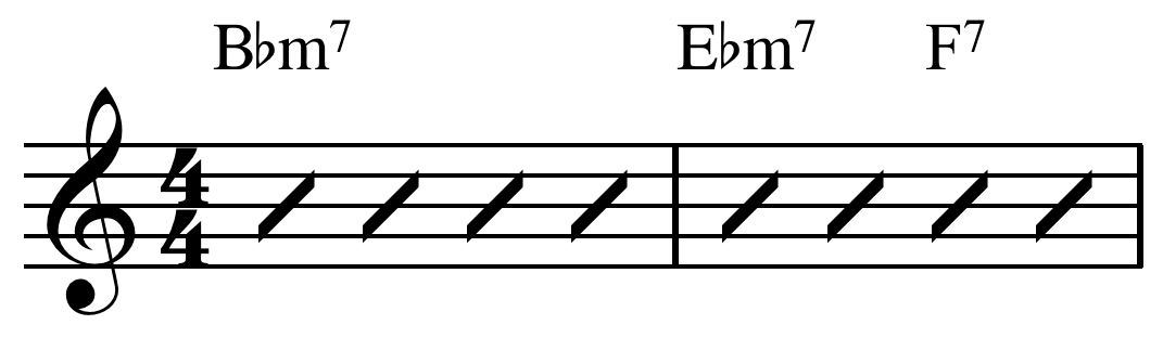 Slash notation in 4/4 with a slash on each beat under a i7 iv7-V7 chord progression in B♭ minor.